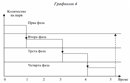 Перфектно спојување на моментите на плаќањето во одделните фази